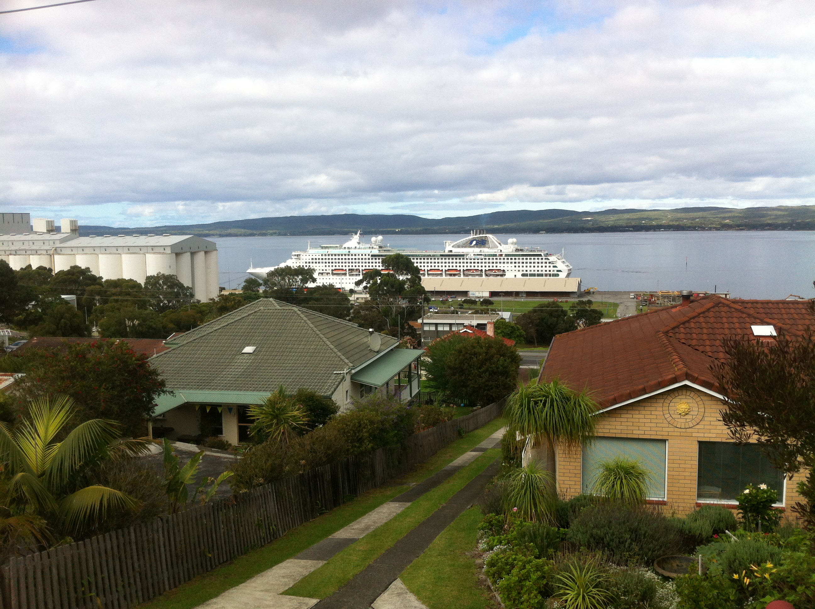 Cruise Ship and Grain solos